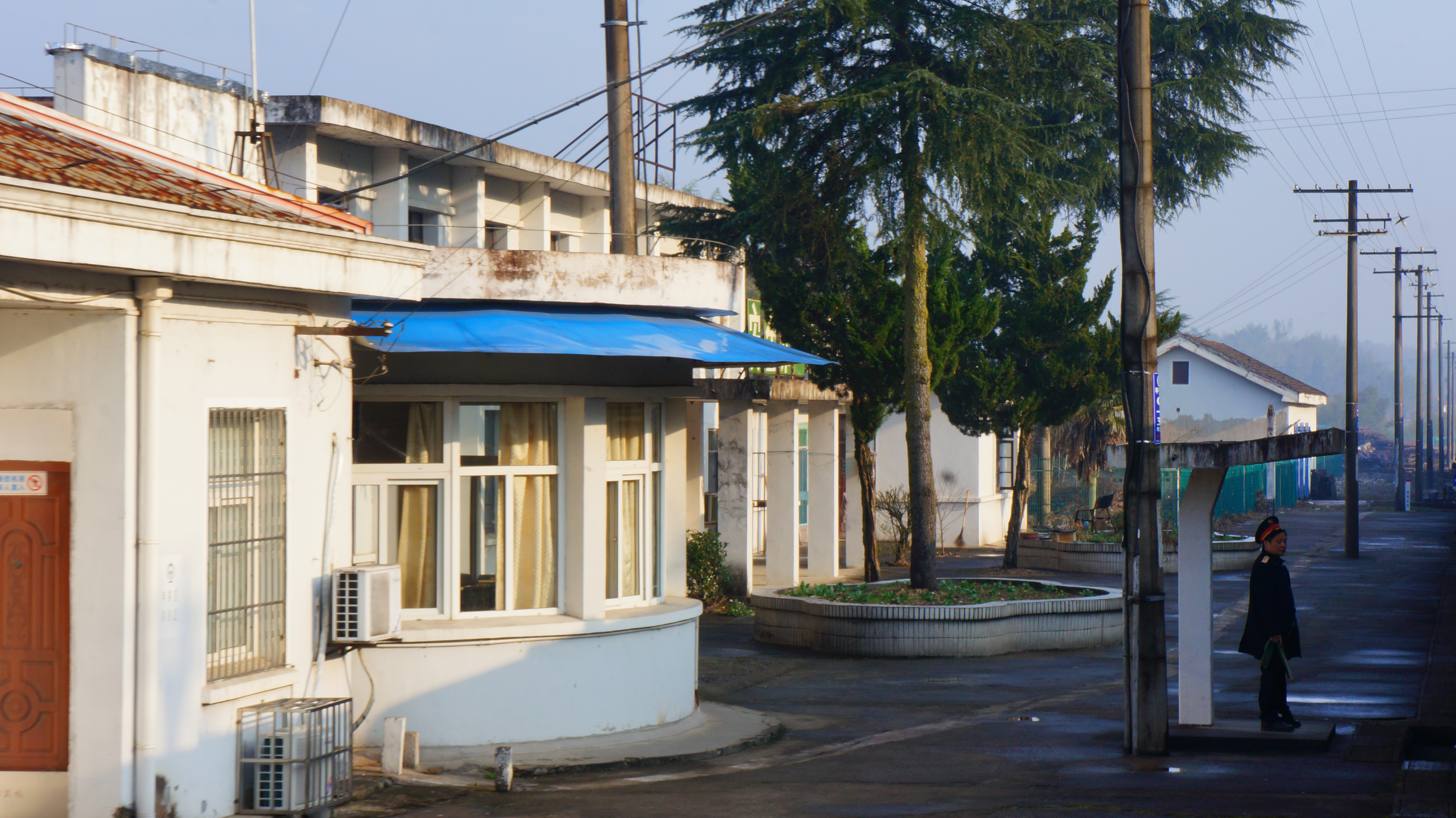 201601Jialu Railway Station